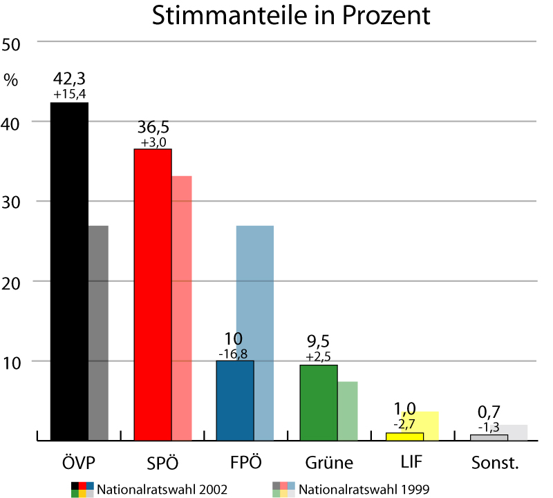 Results of the Austrian legislative Election 2002 in percentages compared with the election 1999